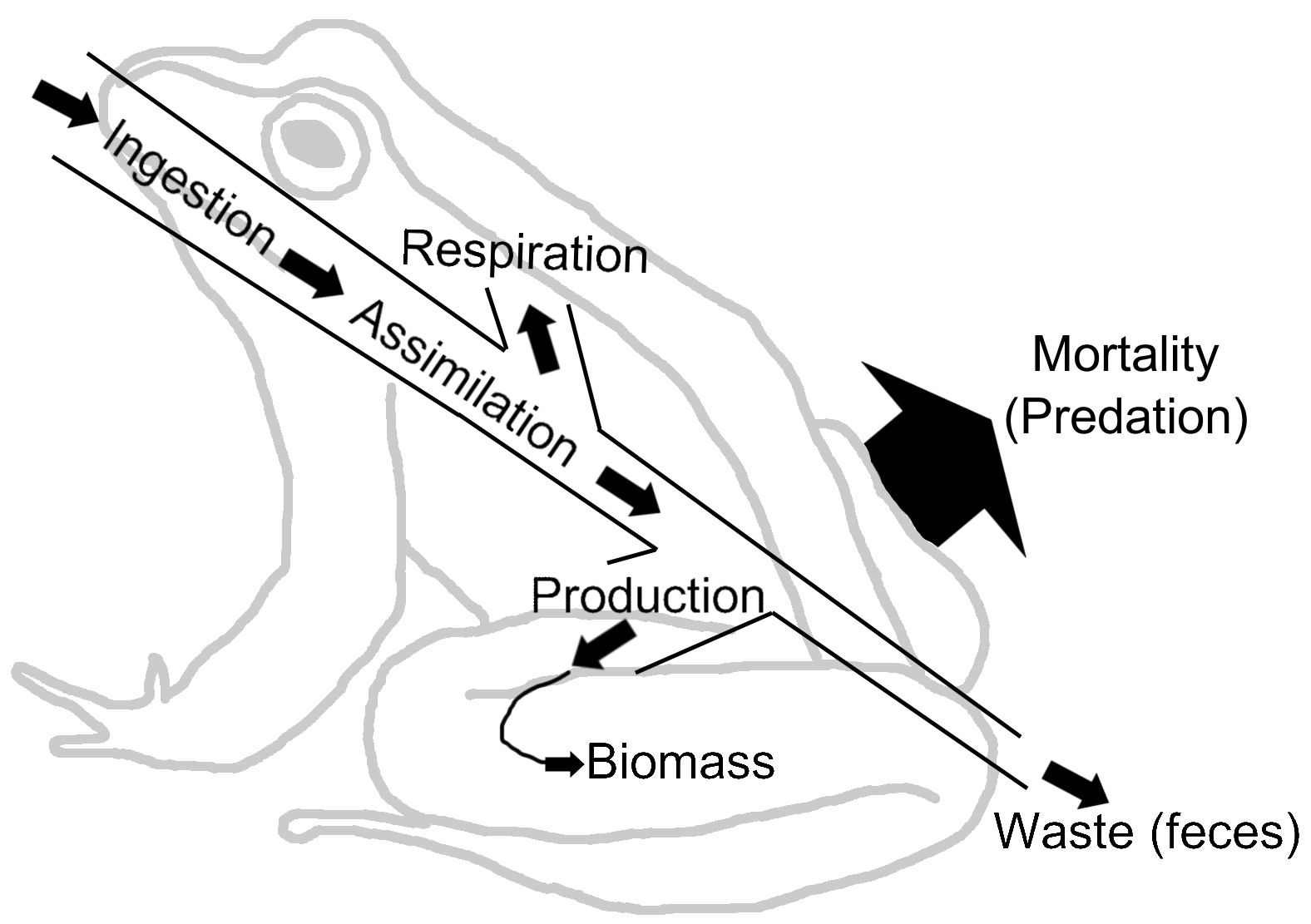 Energy flow diagram in a frog showing ecological pathways for production.